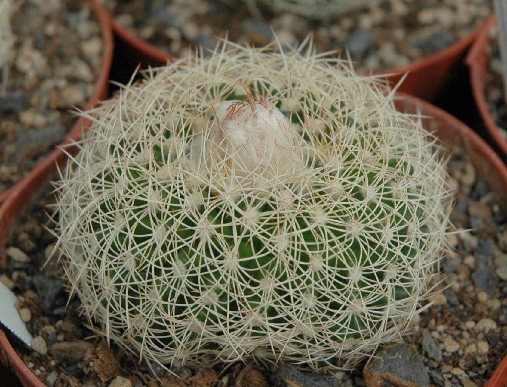 Habit of Discocactus araneispinus